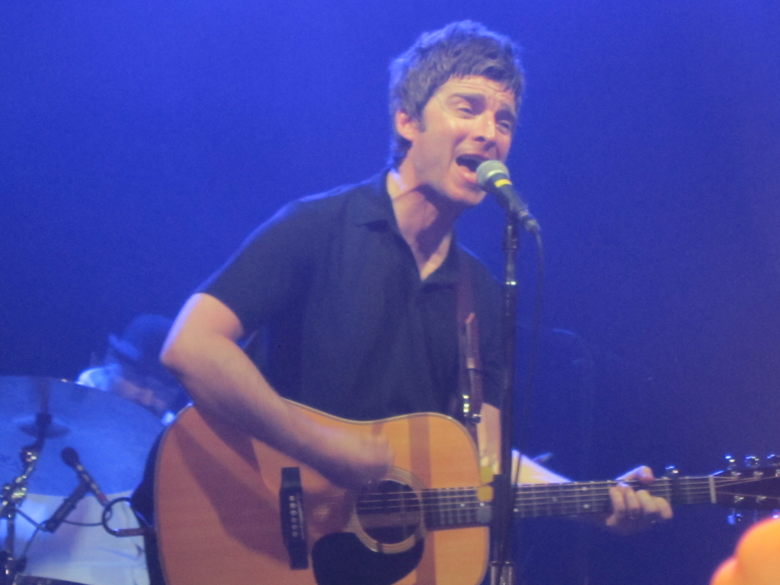 Noel Gallagher performing live at the Atlantico in Rome with his band High Flying Birds on 13th March 2012